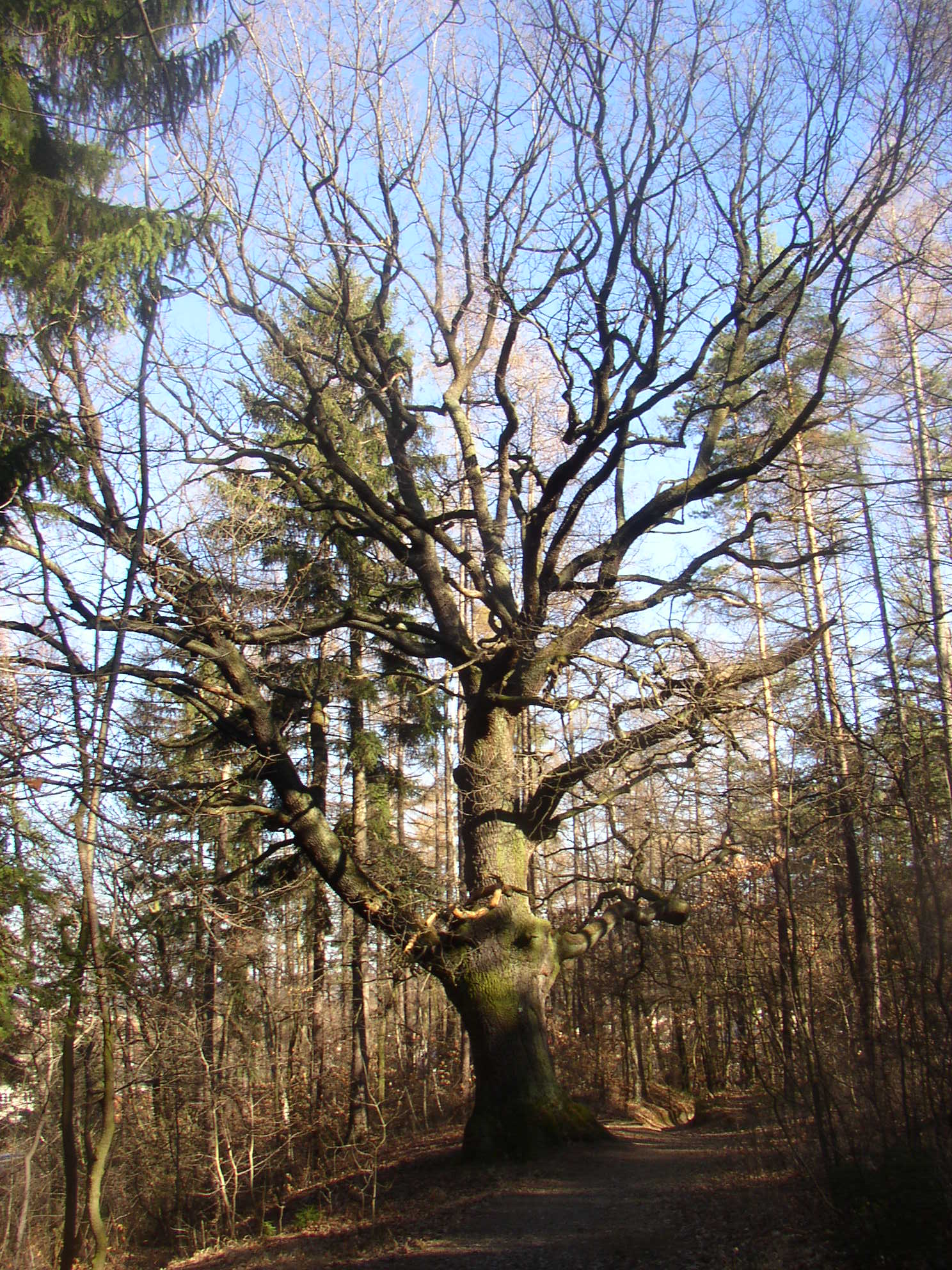 Protected example of Sessile Oak (Quercus petraea) marking boundary between city of Kladno and town of Libušín in a forest west of Tuhaň (part of Vinařice municipality), Kladno District, Czech Republic.